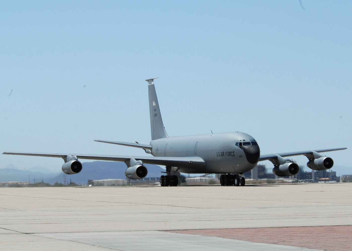 Last existing KC-135E tail number 56-3630 decommissioned at Davis-Monthan AFB - AMARC